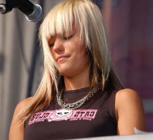 Photo of Katrin Siska playing live in Koblenz (august 2005)